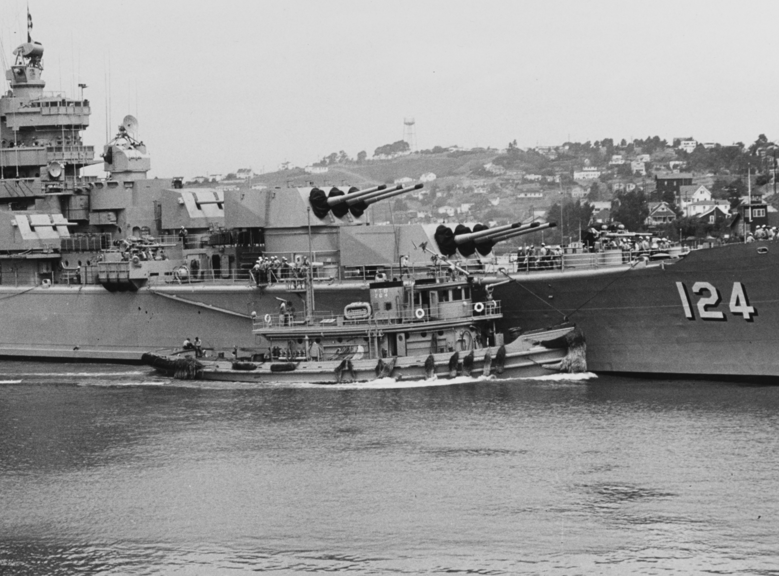 The U.S. Navy tug USS Awatobi (YTB-264) assists the heavy cruiser USS Rochester (CA-124) in departing the Mare Island Naval Shipyard, California (USA), 20 September 1953.